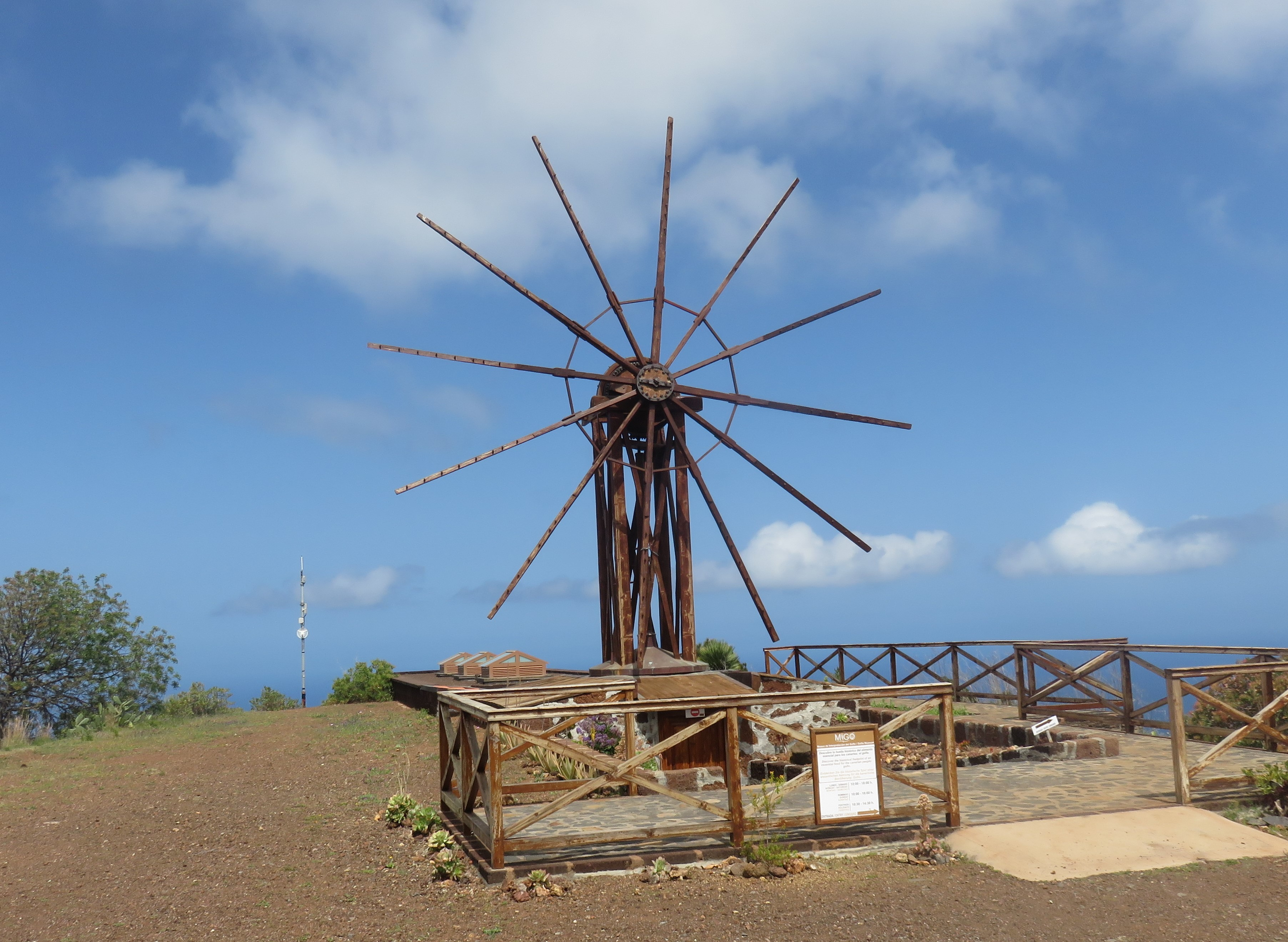 El Molino de Las Tricias in Garafía